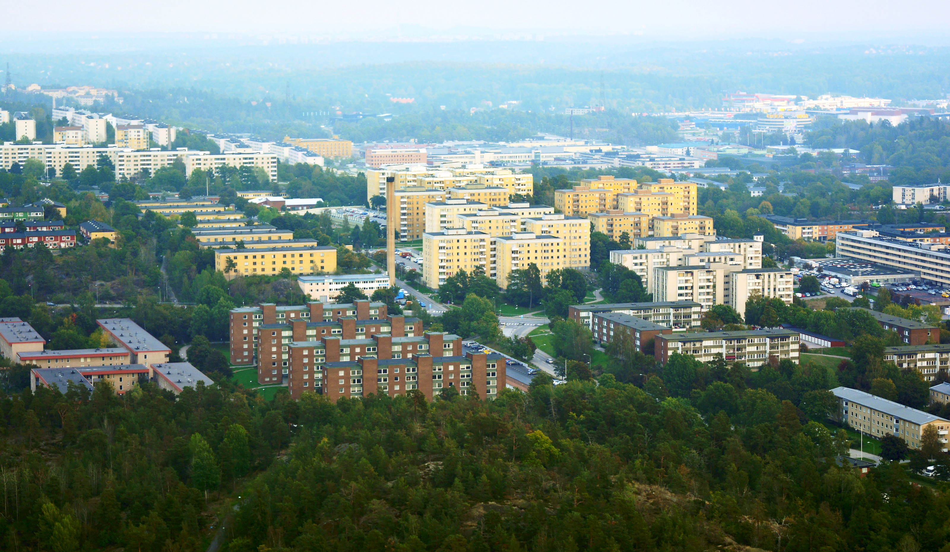 Skärholmen and Vårberg in southern Stockholm, Sweden.